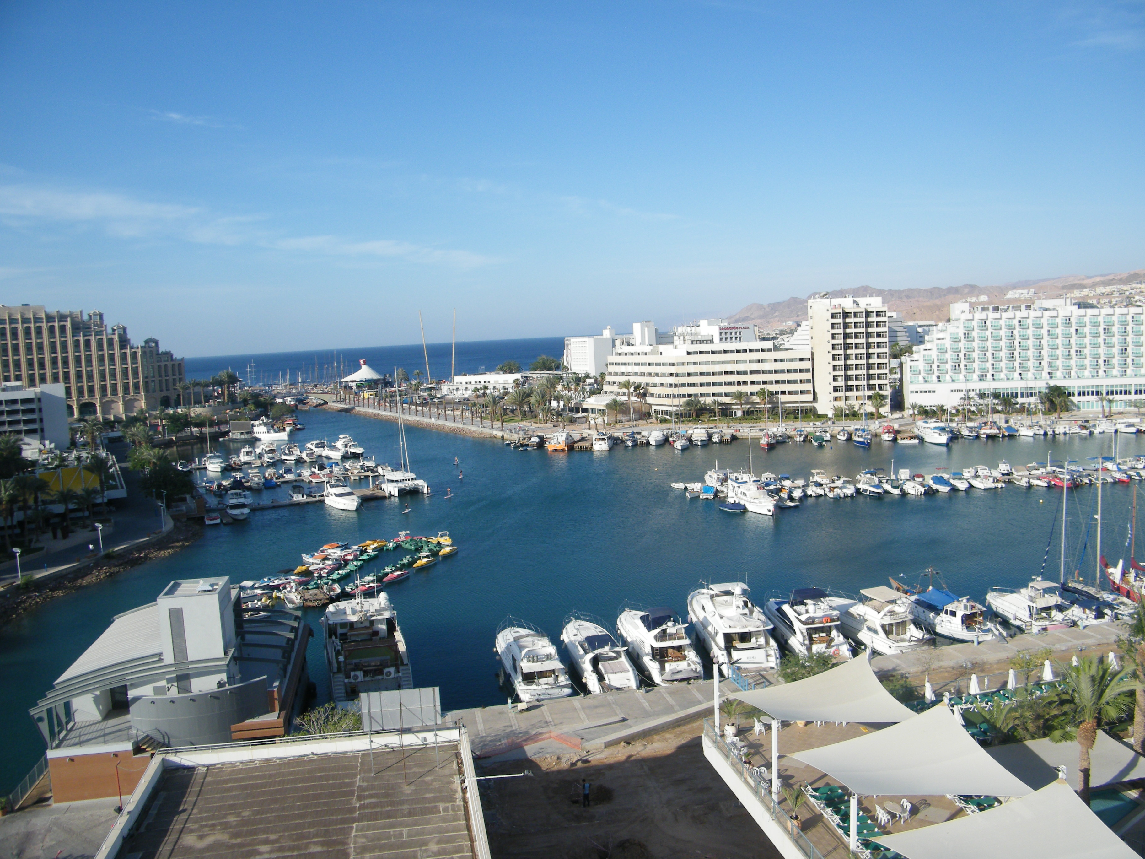 How beautiful this city of Eilat, we have to be proud of